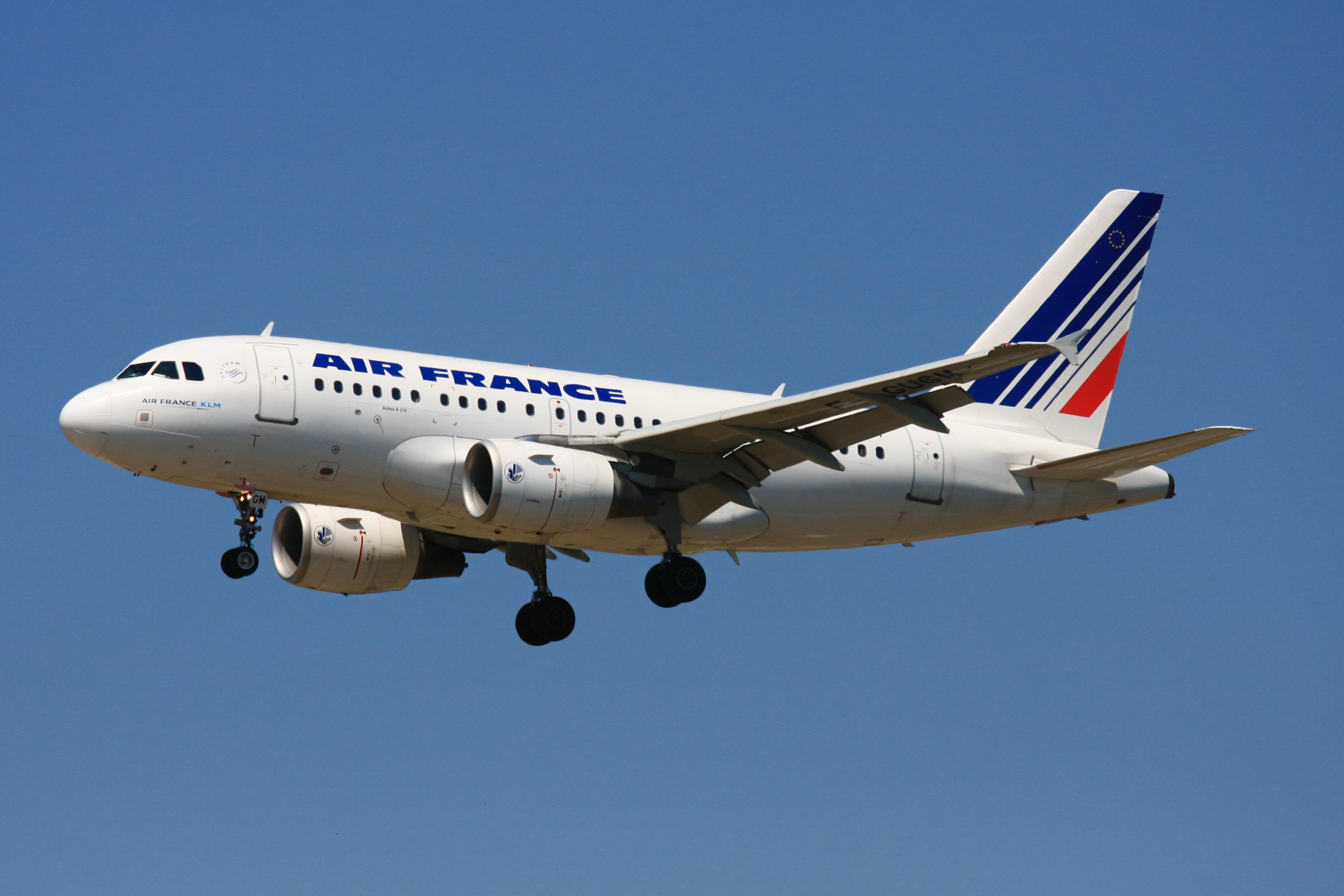 An Airbus A318 of Air France landing at Frankfurt Airport